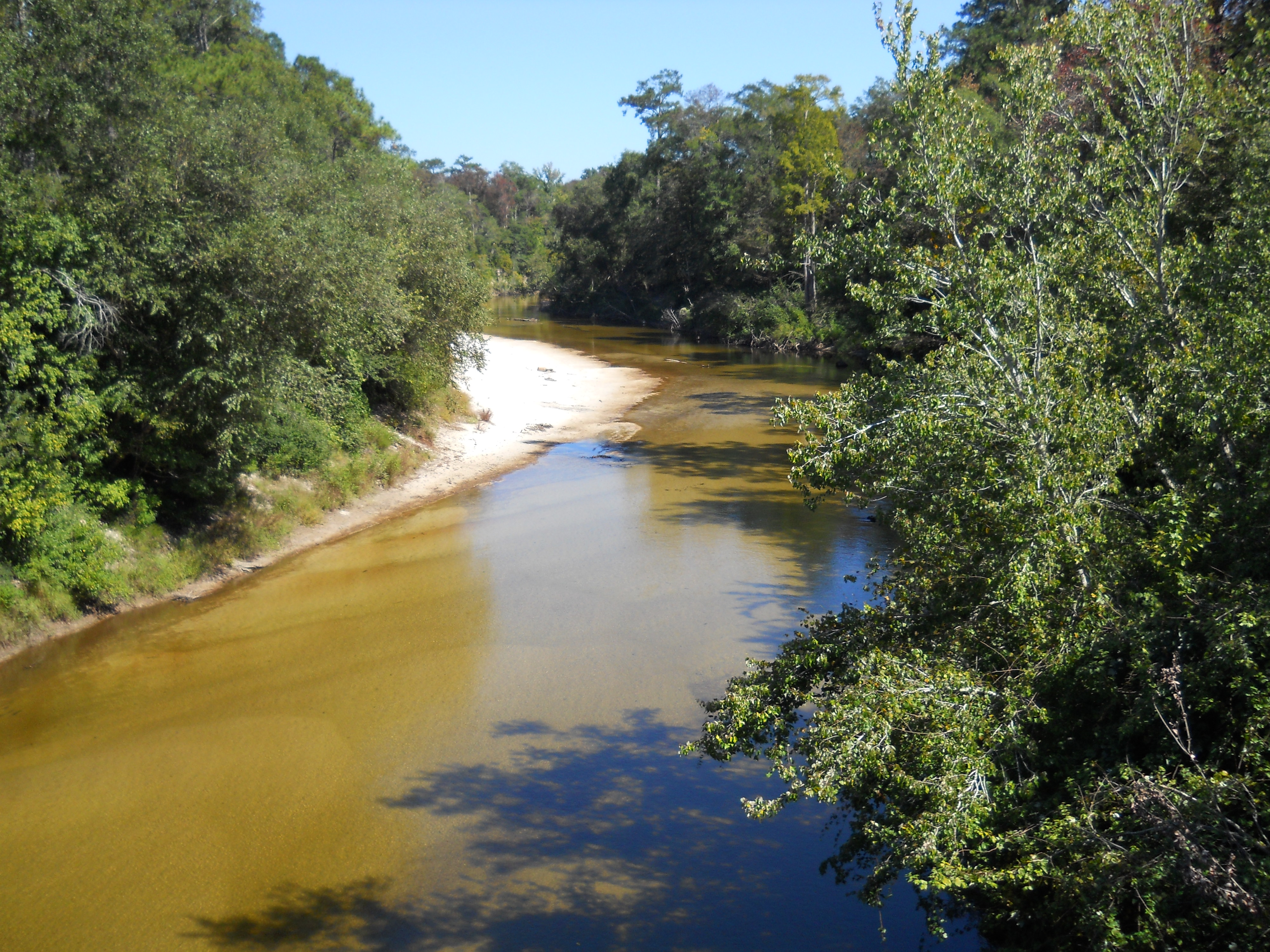 View of Red Creek, taken from Mississippi Highway 15 bridge, looking east in the Ramsey Springs community, Stone County, Mississippi, USA.